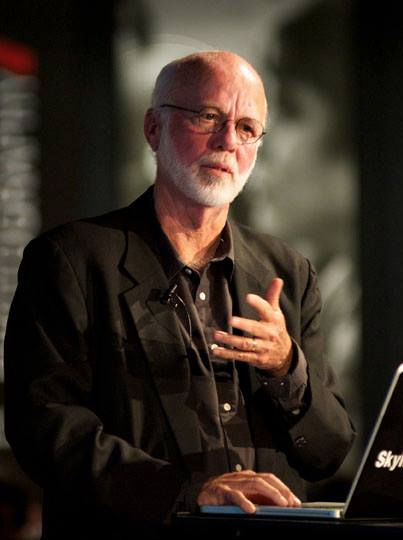 David Hume Kennerly speaks at the opening of the exhibit War/Photography: Images of Armed Conflict and Its Aftermath, at the Annenberg Space for Photography